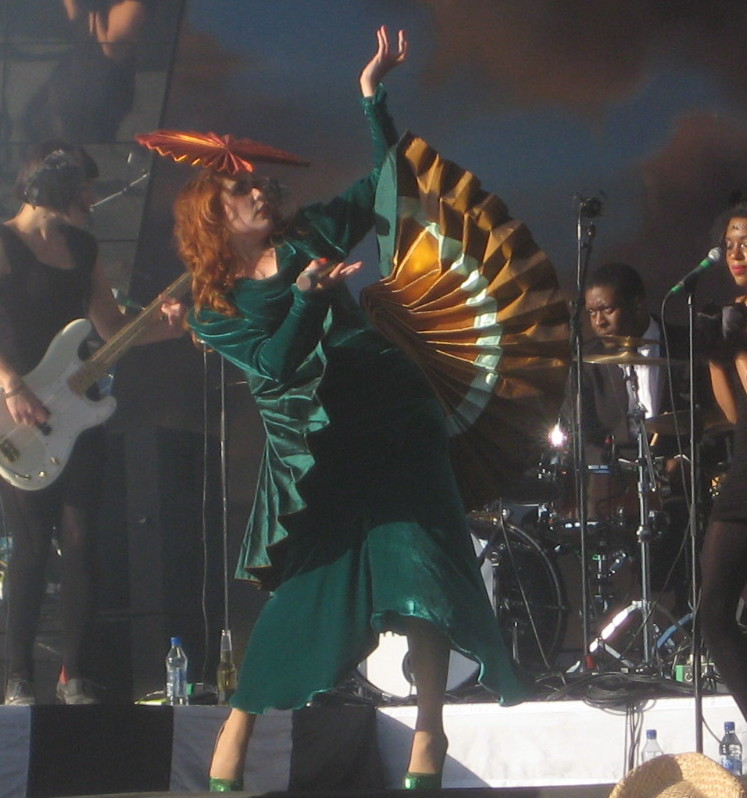 Paloma Faith performing at the 2010 Lovebox Festival.